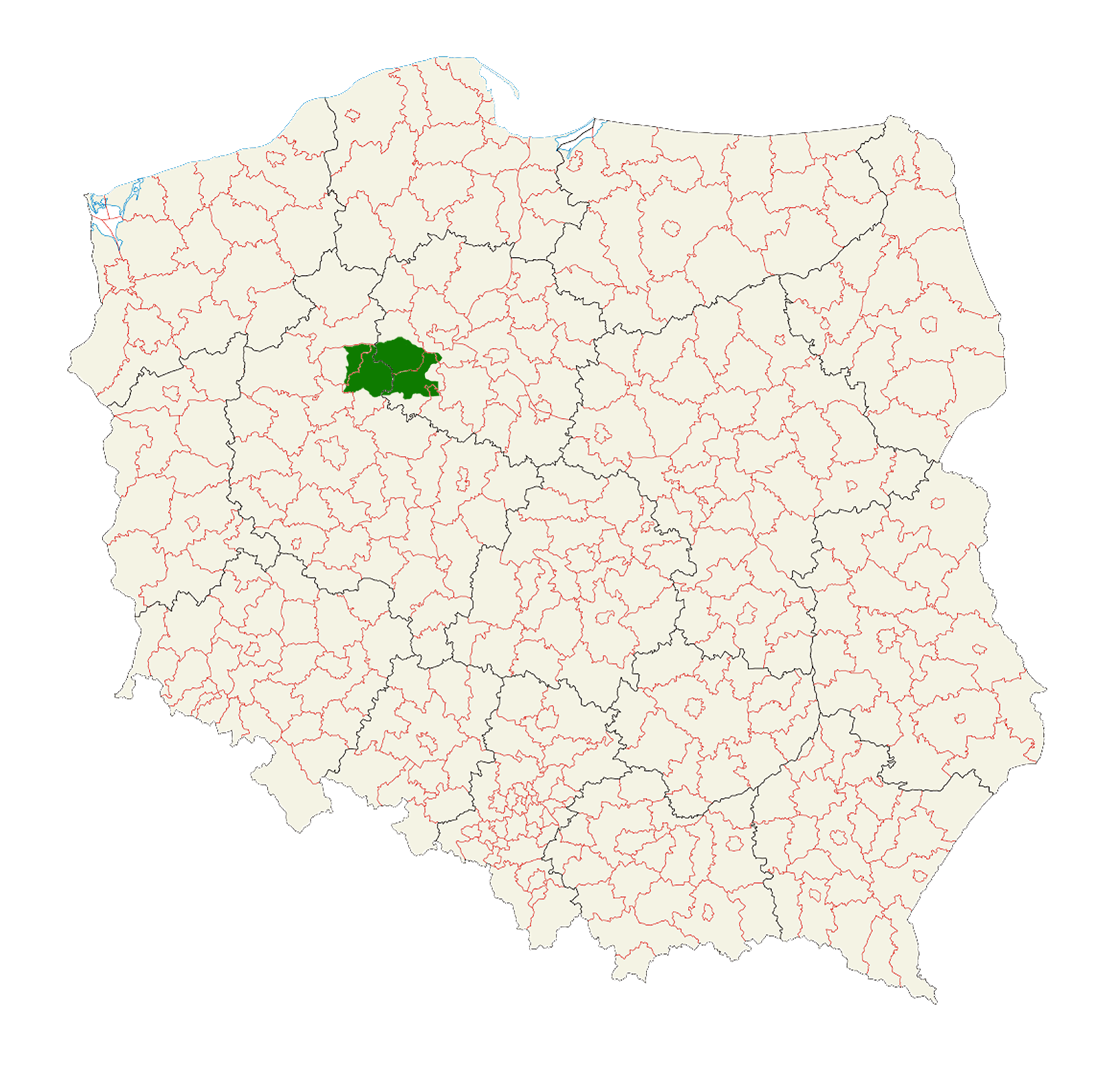 Location of Pałuki region in Poland.